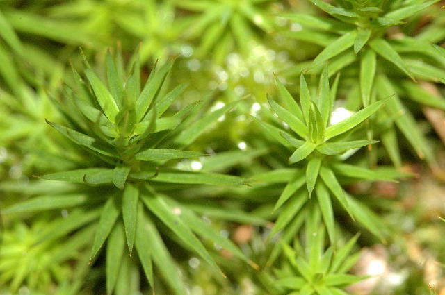 Picture taken in Commanster, Belgian High Ardennes . Species: Polytrichastrum formosum